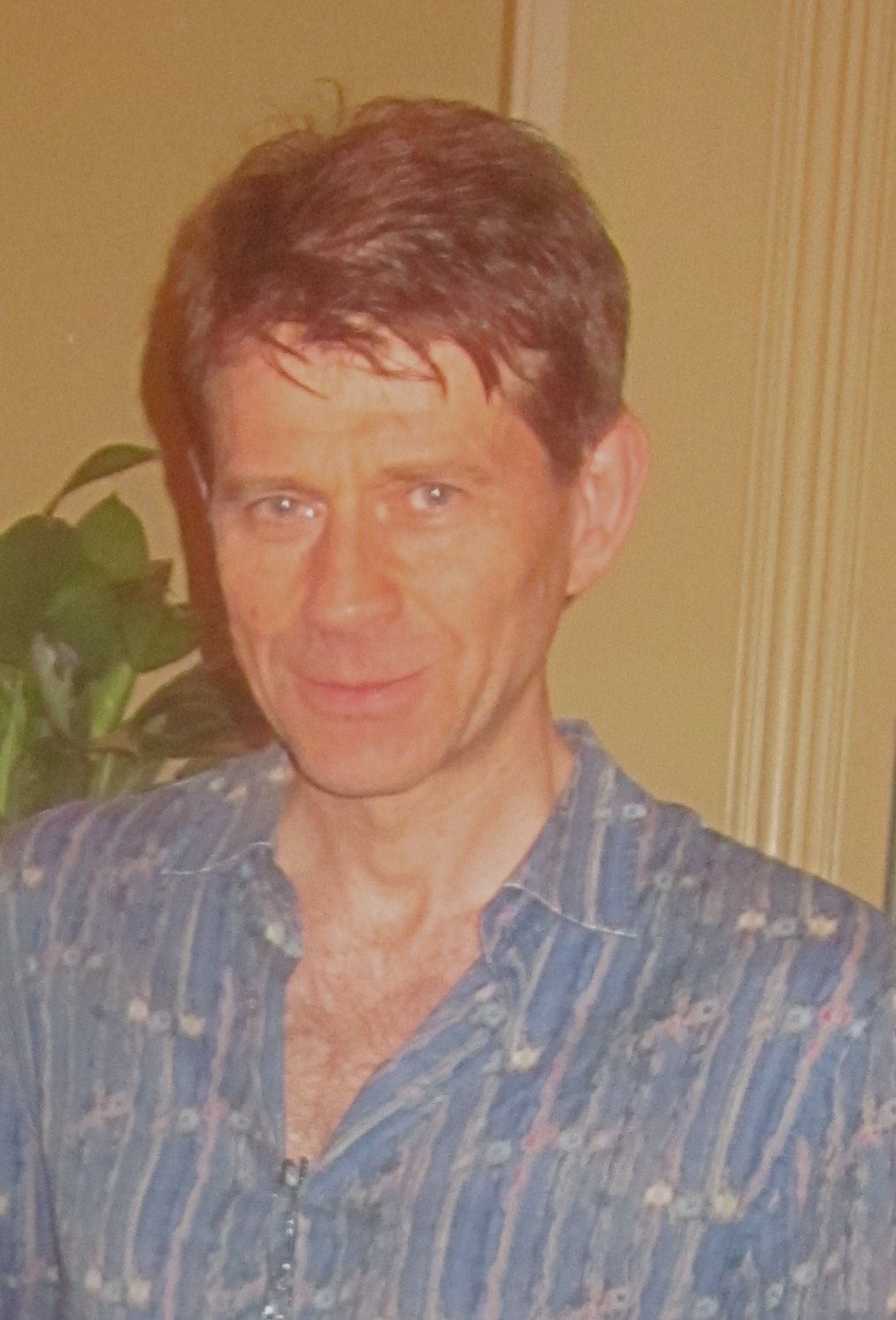 New Orleans Traditional Jazz Camp, June 2013. At the Bourbon Orleans Hotel. Morten Gunnar Larsen